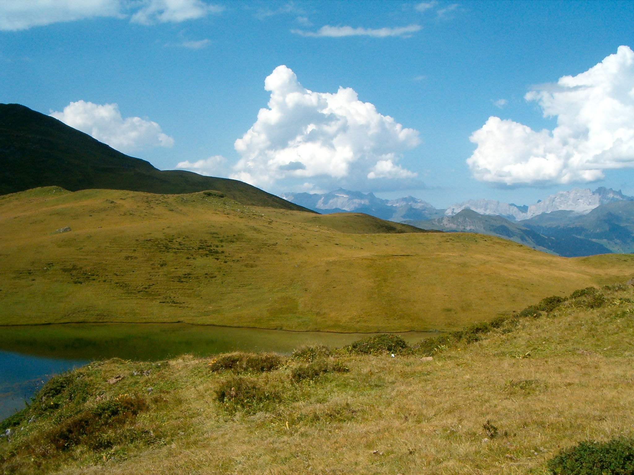 Durannapass bewteen Langwies and Conters